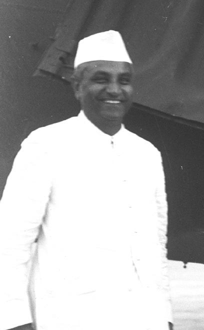 Jivraj Narayan Mehta, the then Director General of Health Services with the Government of India and later the first Chief Minister of the newly formed state of Gujarat.